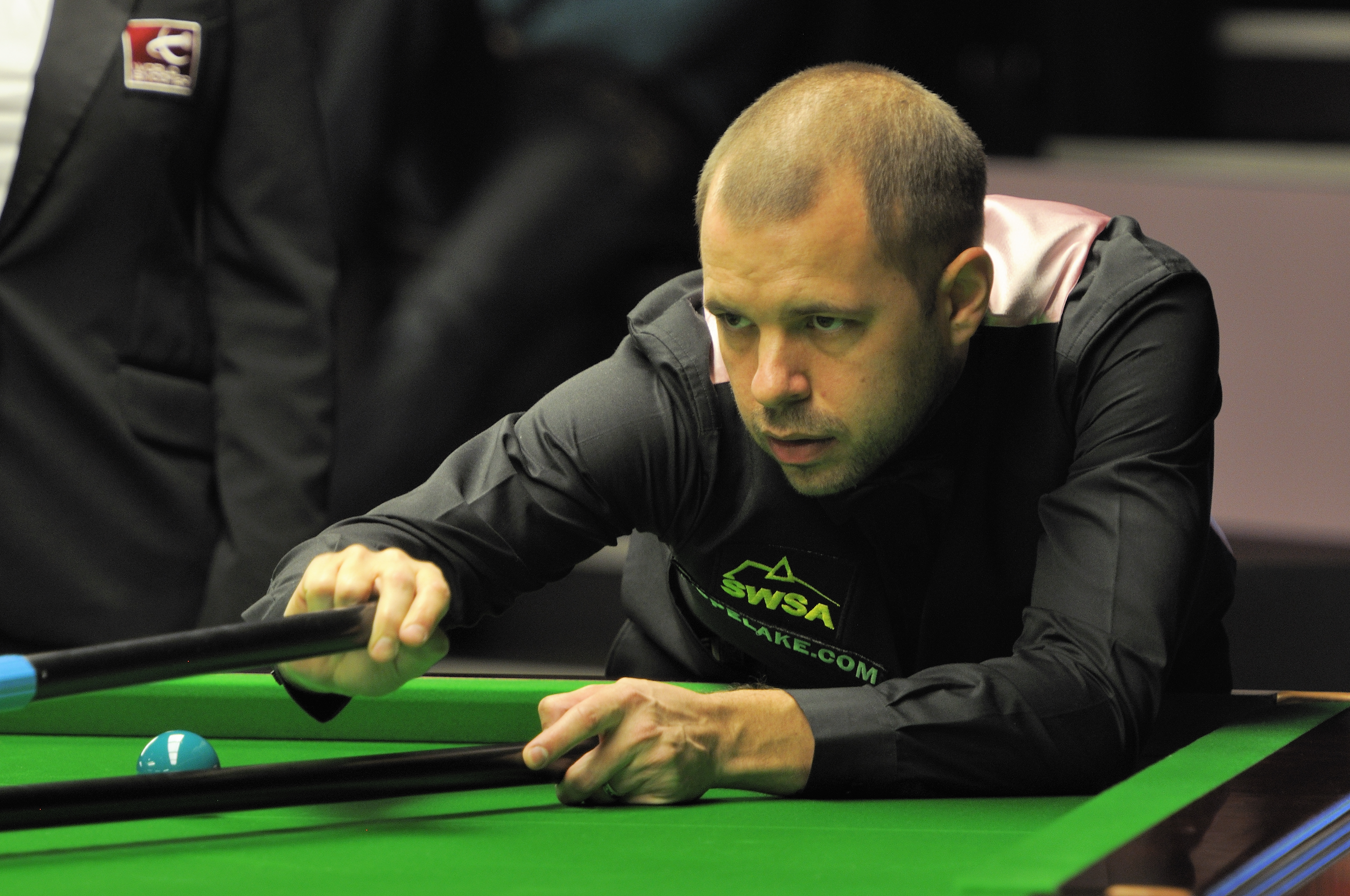 Picture taken in Berlin during the Snooker German Masters in 2014. Barry Hawkins.